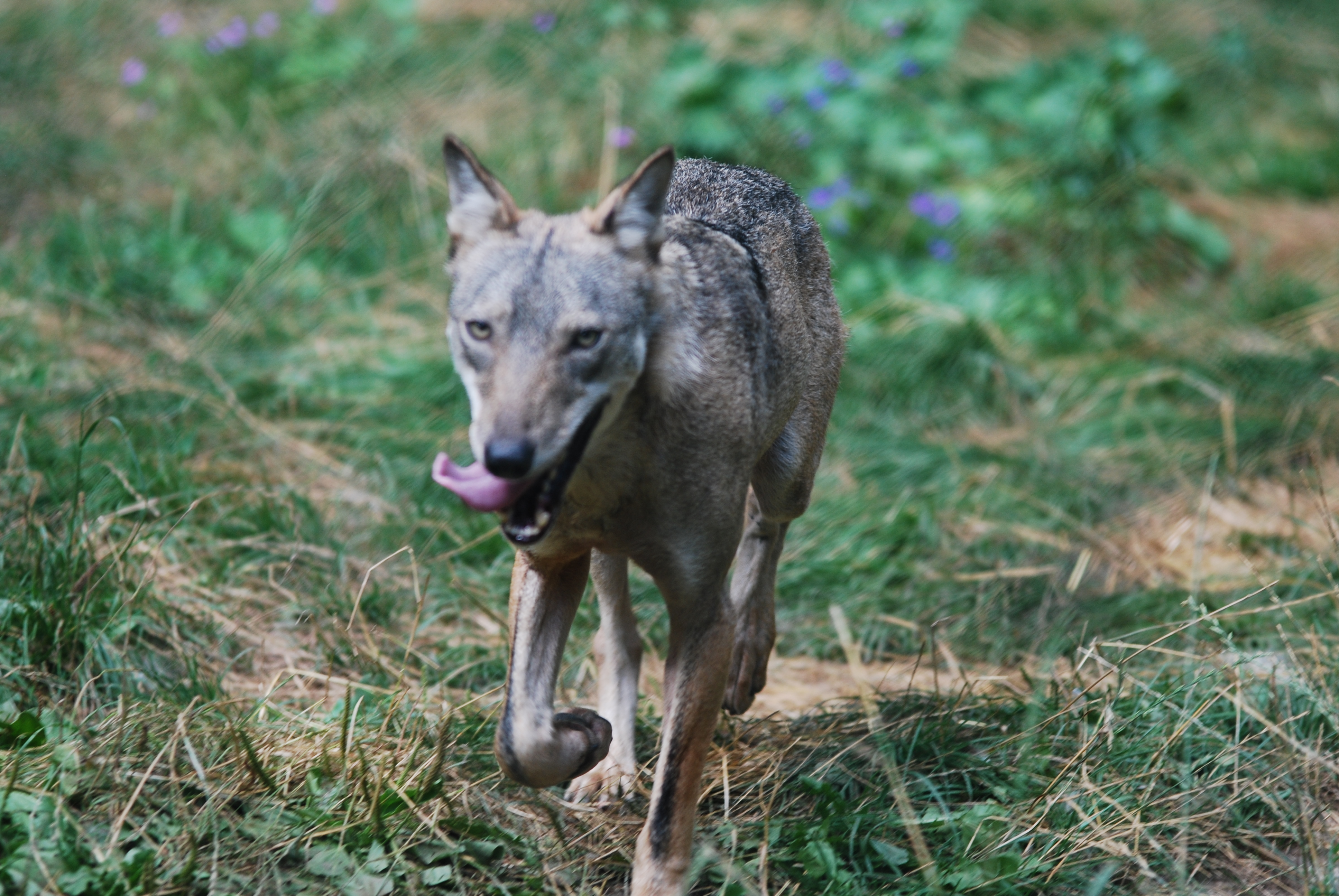 Italian wolf, Abruzzo National Park